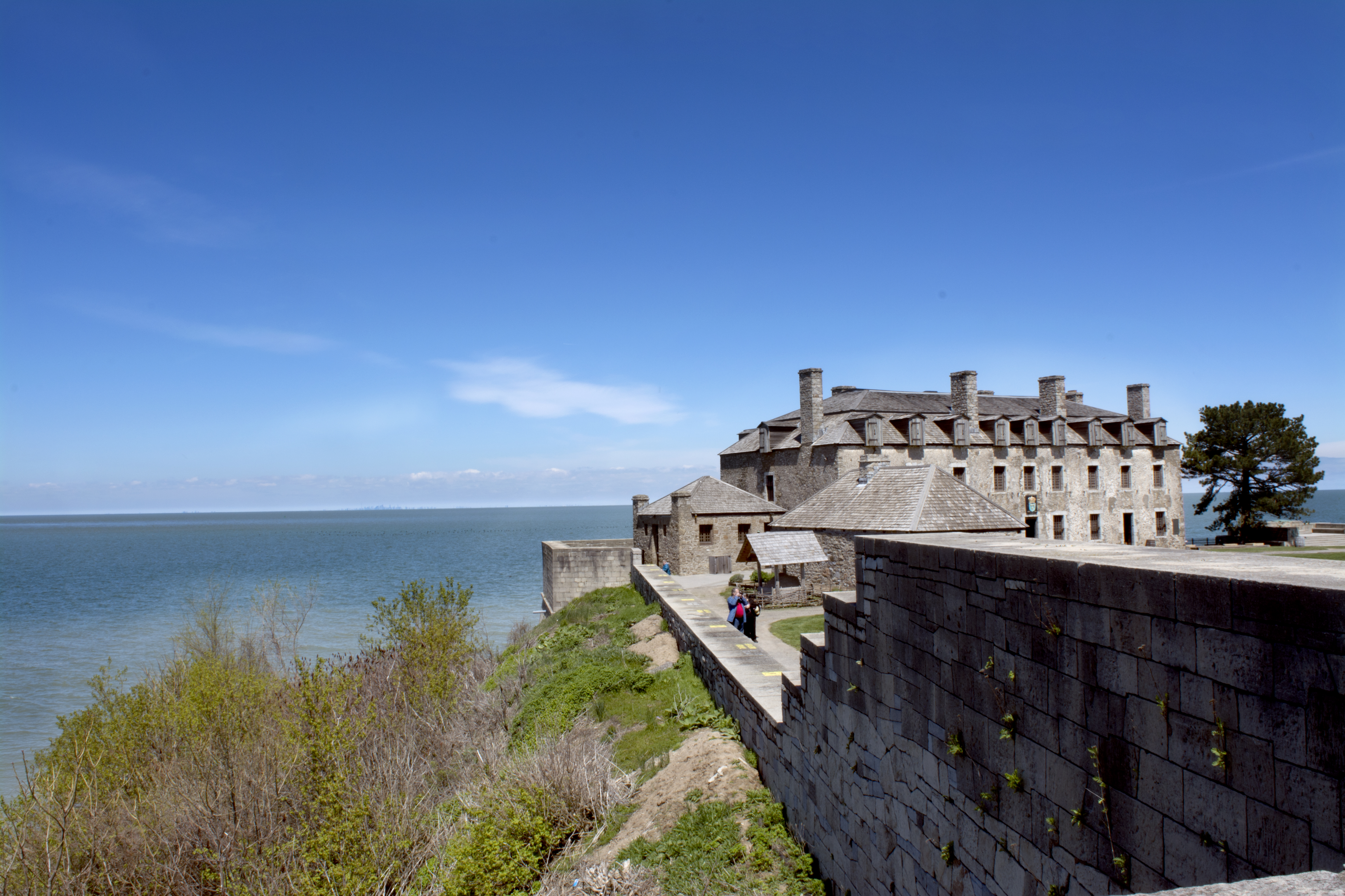 Side view of French castle at Fort Niagara. Viewer can also see American side of lake Ontario.